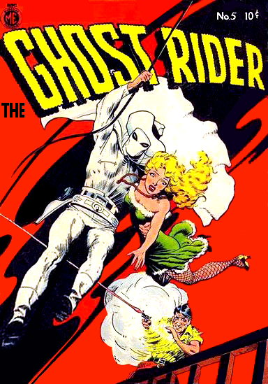 Brilliantly moody cover for Ghost Rider number 5 by the incomparable Frank Frazetta. Published by Magazine Enterprises, 1951.